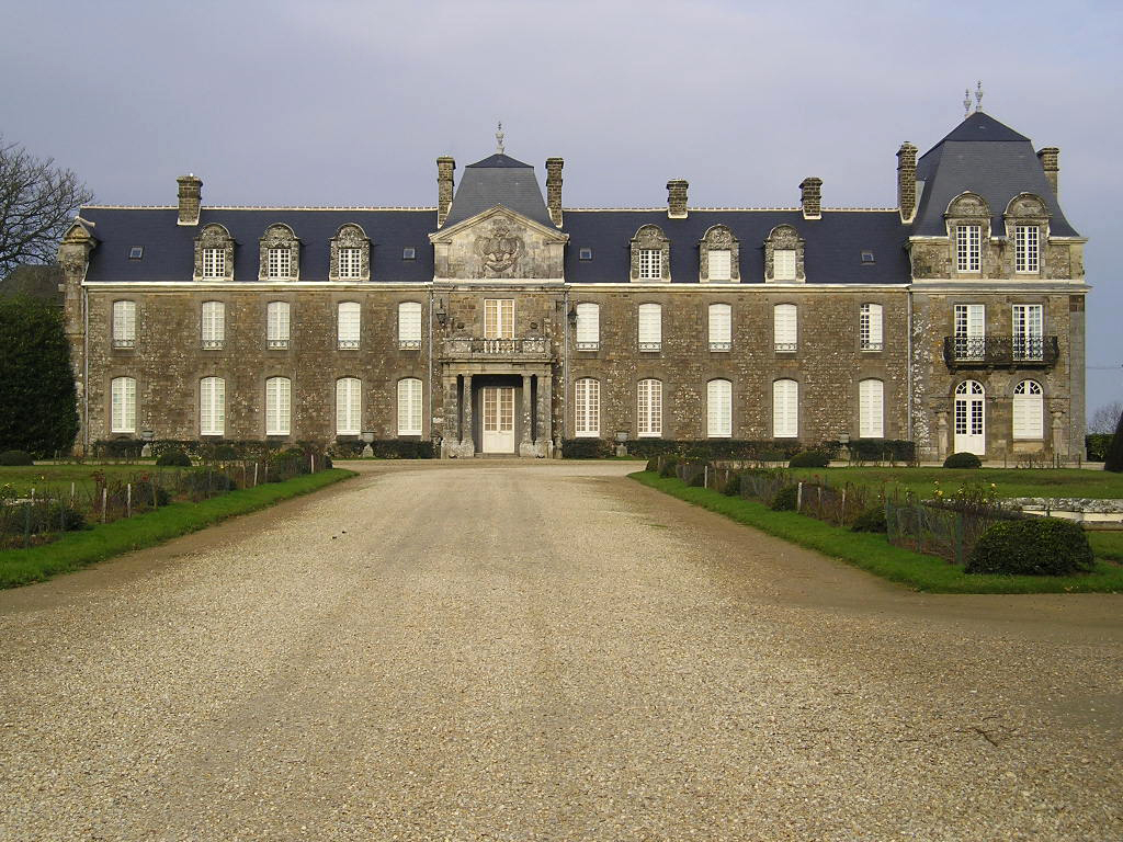 South view of the château of Caradeuc, France.